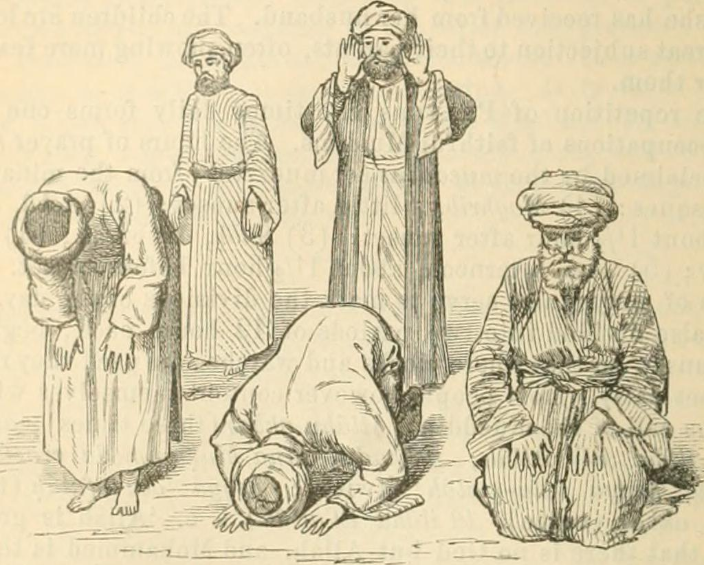 Image taken from page 168 of "Egypt : handbook for travellers : part first, lower Egypt, with the Fayum and the peninsula of Sinai" (1885)